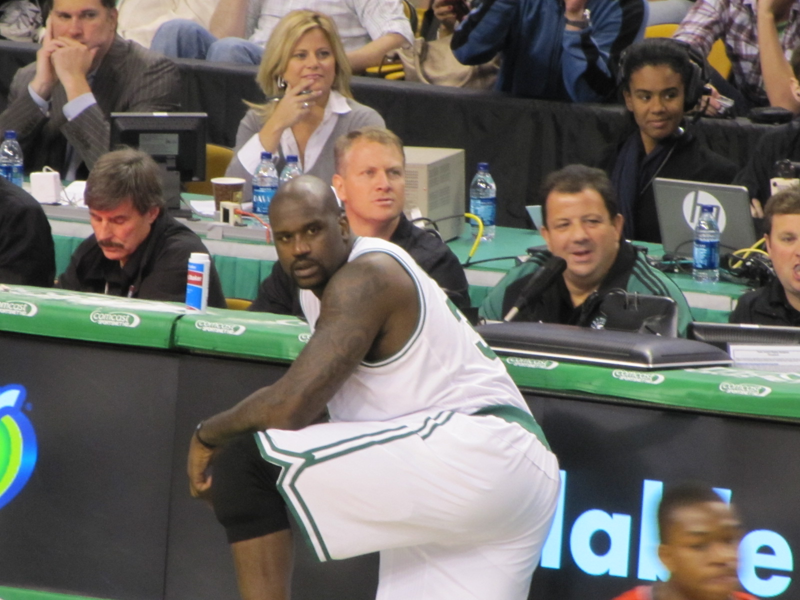 Shaquille O'Neal about to his first game as a member of the Boston Celtics.